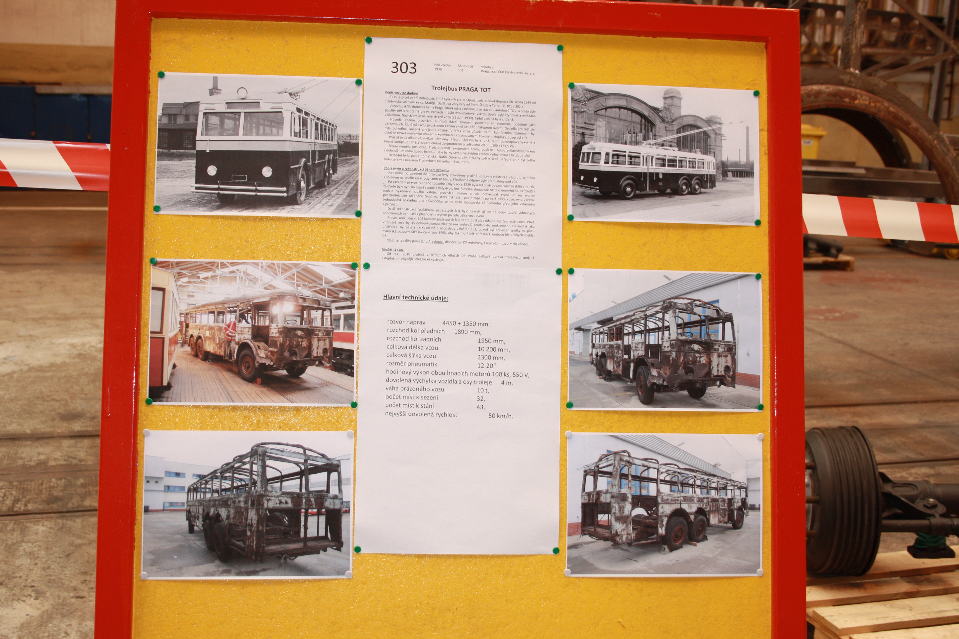 Trolleybus Praga TOT in 2011